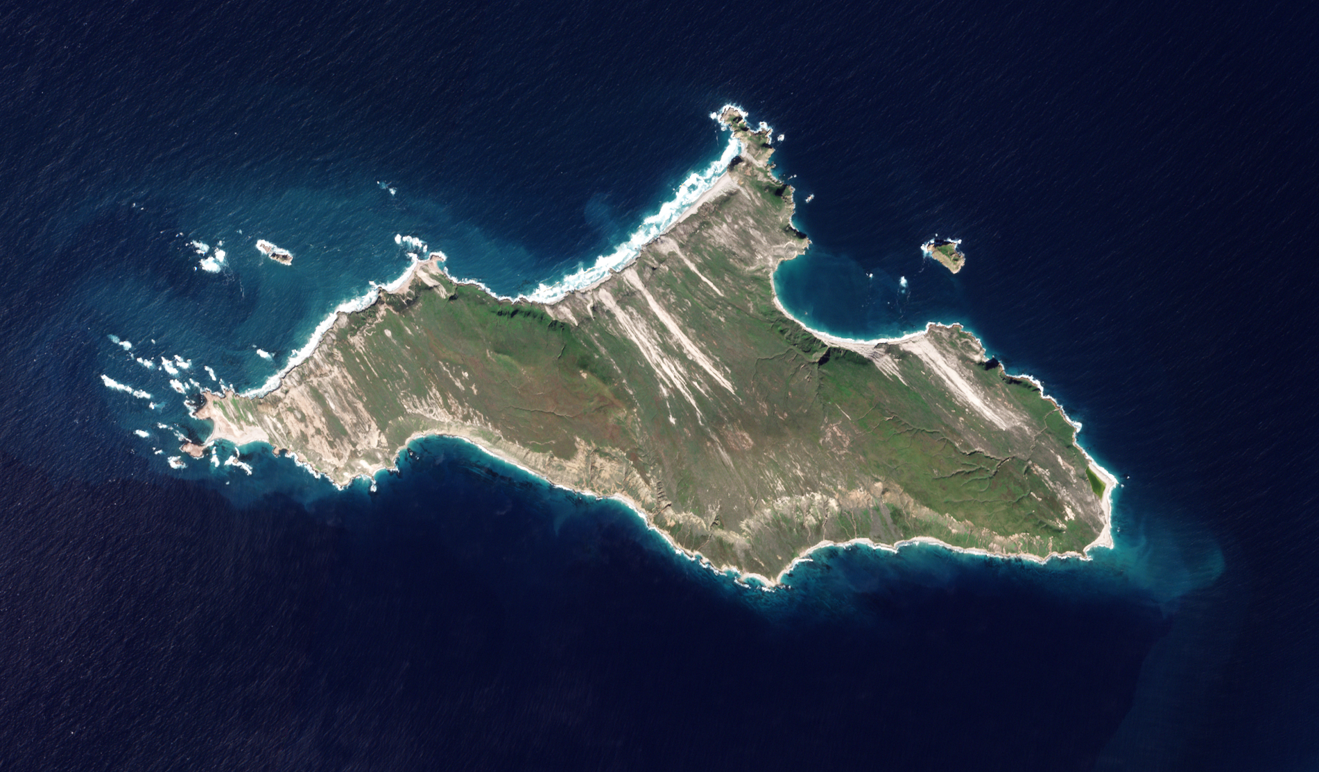 Date: 2019-02-11 Sensor: MSI on Sentinel-2B Resolution: 10m RGB Composites: True color, Band 4-3-2